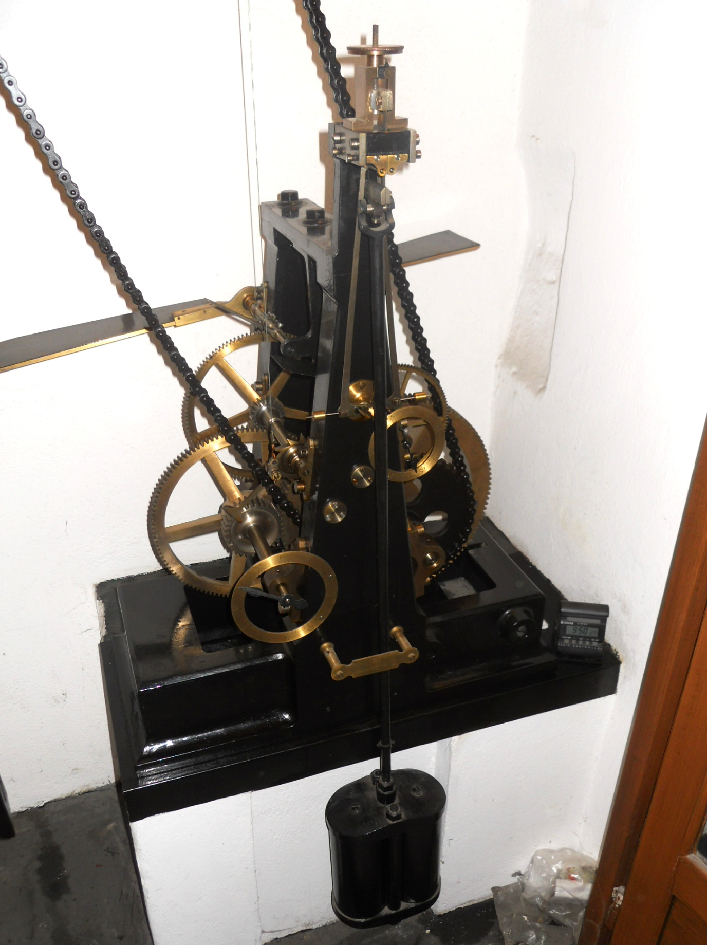 Prague Astronomical Clock, main works. The pendulum clock with mercury compensation and Denison (gravitation) escapement, which keeps the time of the whole clock. Built by Romuald Božek 1865.